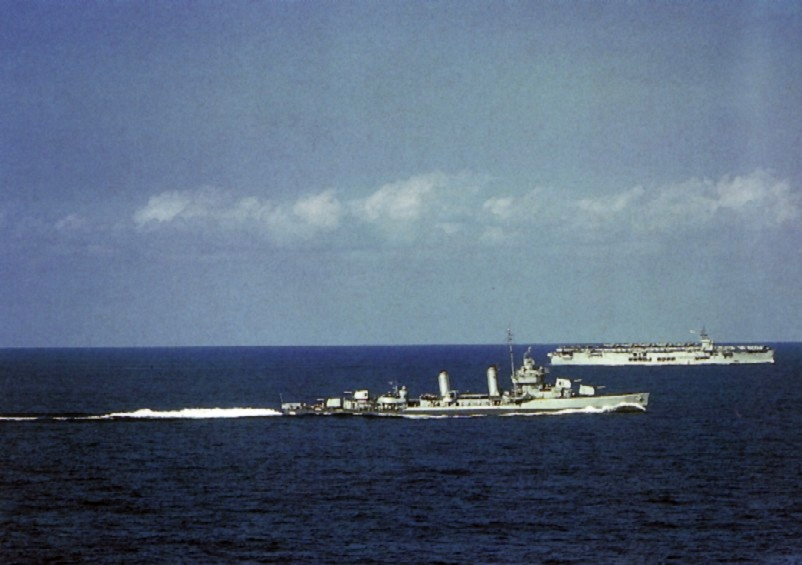 The U.S. Navy Gleaves-class destroyer USS Hambleton (DD-455) and the escort carrier USS Sangamon (ACV-26) en route to "Operation Torch", the invasion of North Africa, during November 1942.